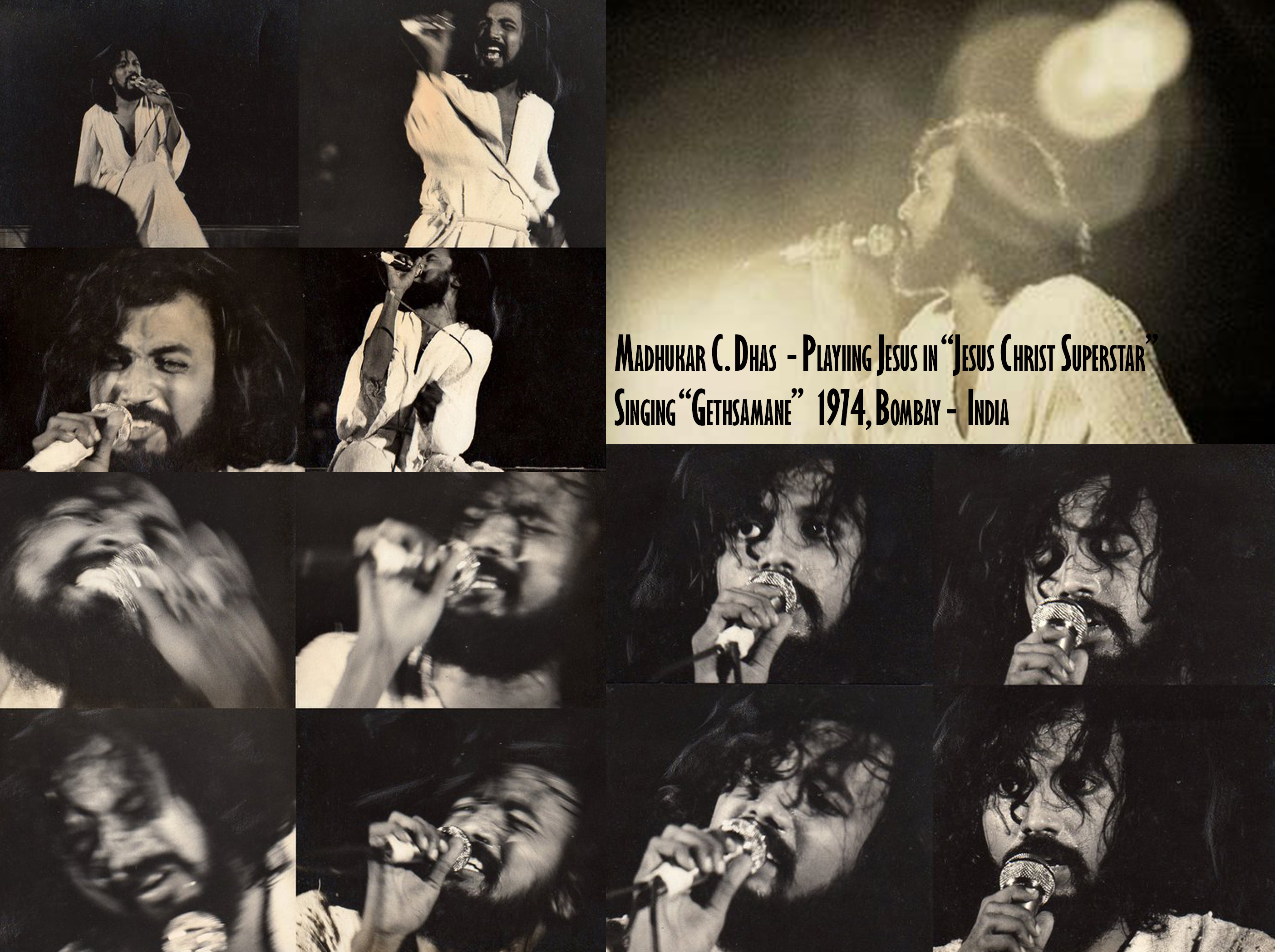 Madhukar Chandra Dhas played the title role of JESUS in the Indian production of 'Jesus Christ Superstar' 1973 to 1974.